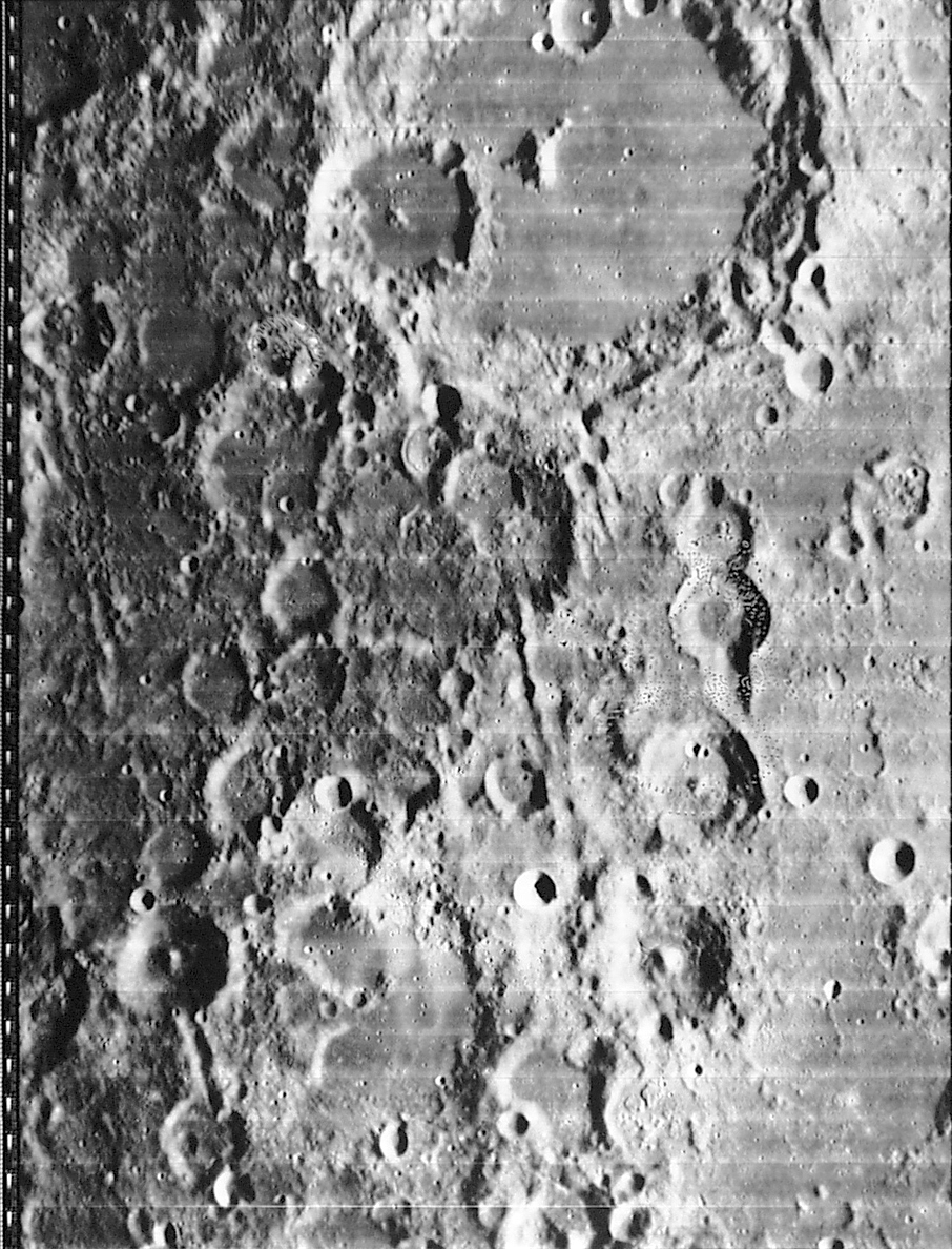 Crater Albategnius (Lunar Orbiter image) - upper part of the photo and crater Klein overlapping it